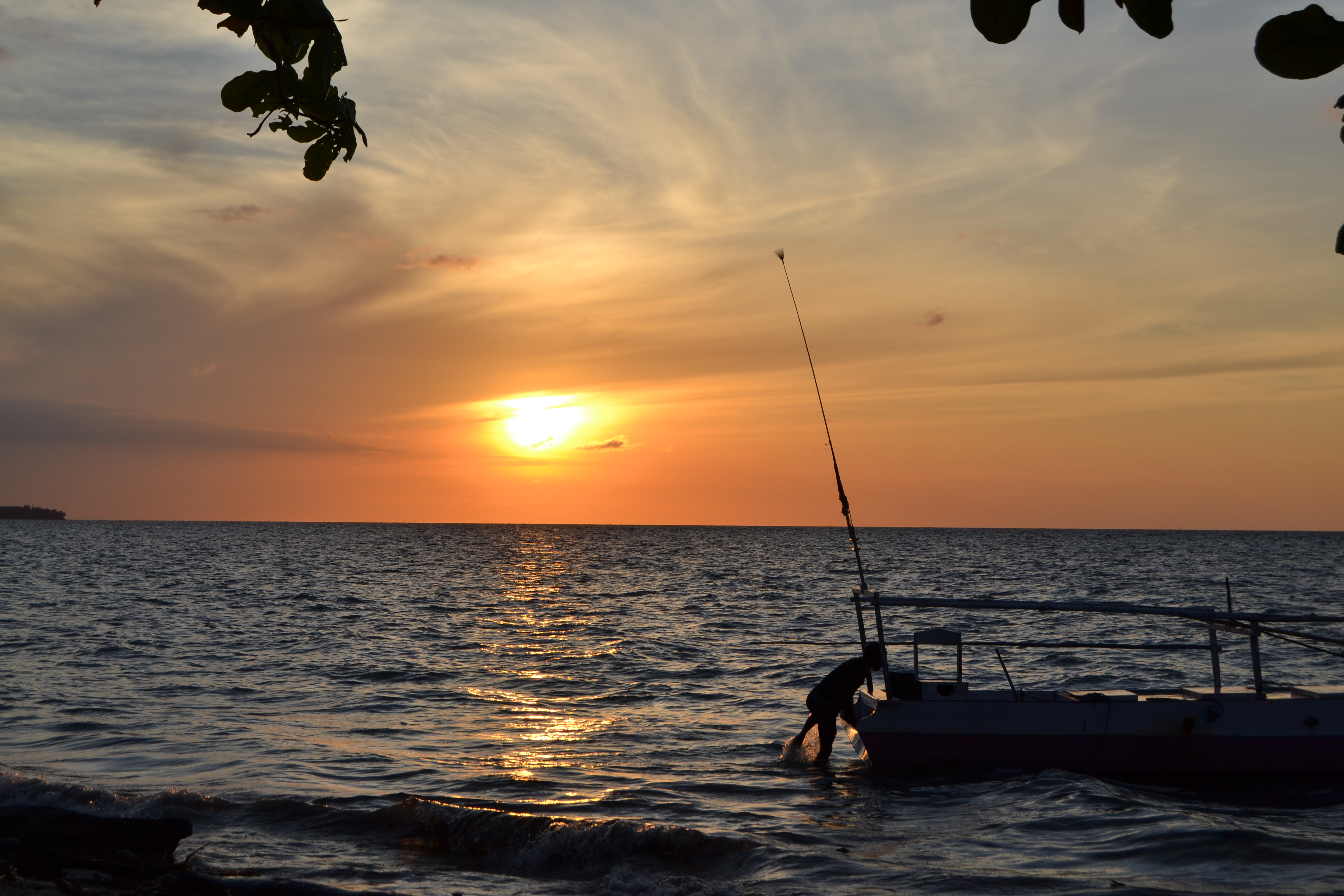 Senja di Pantai Boneoge, Kecamatan Banawa, Kabupaten Donggala, Sulawesi Tengah.